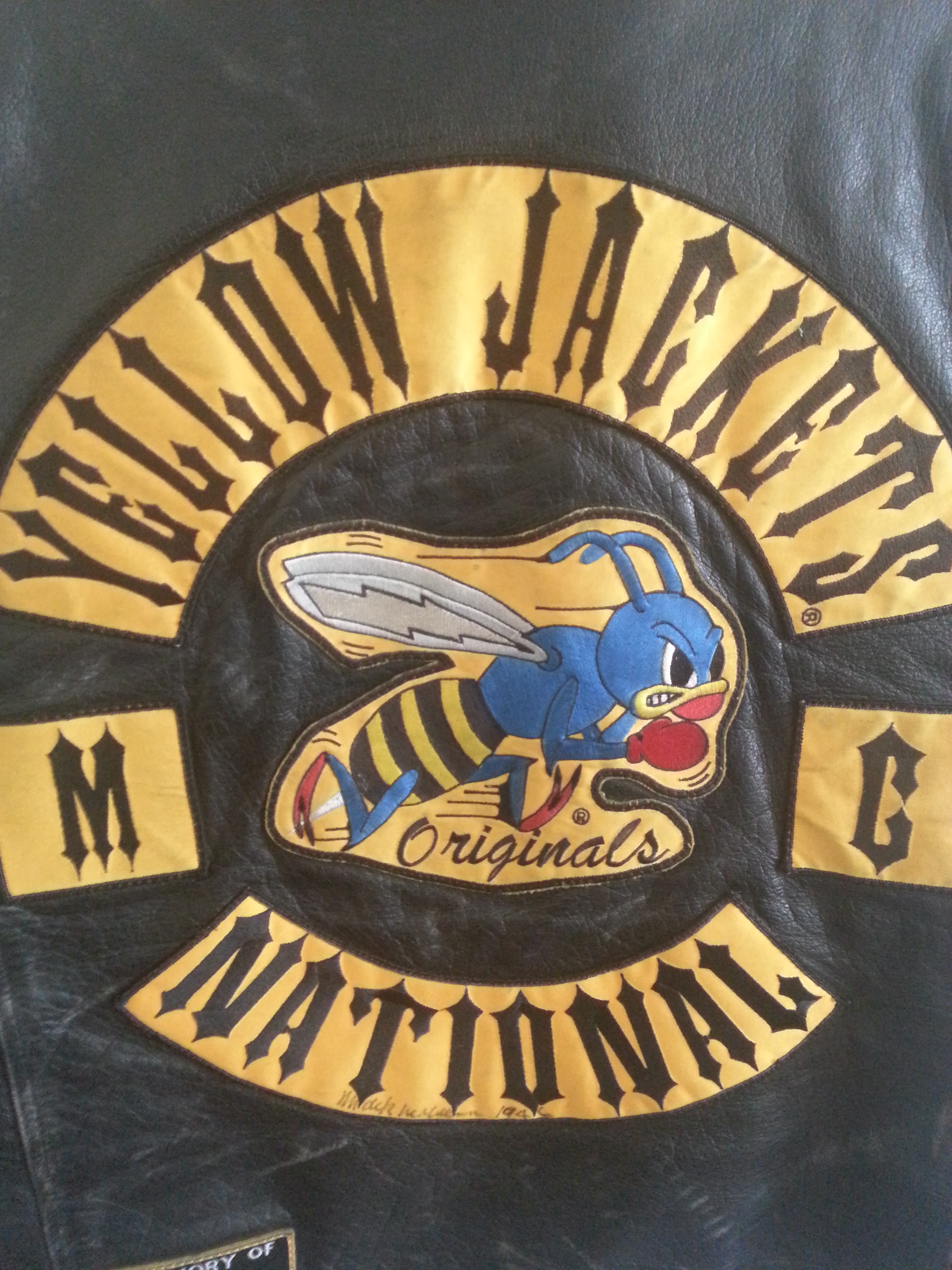 The full patches of a national officer of the Yellow Jackets MC.